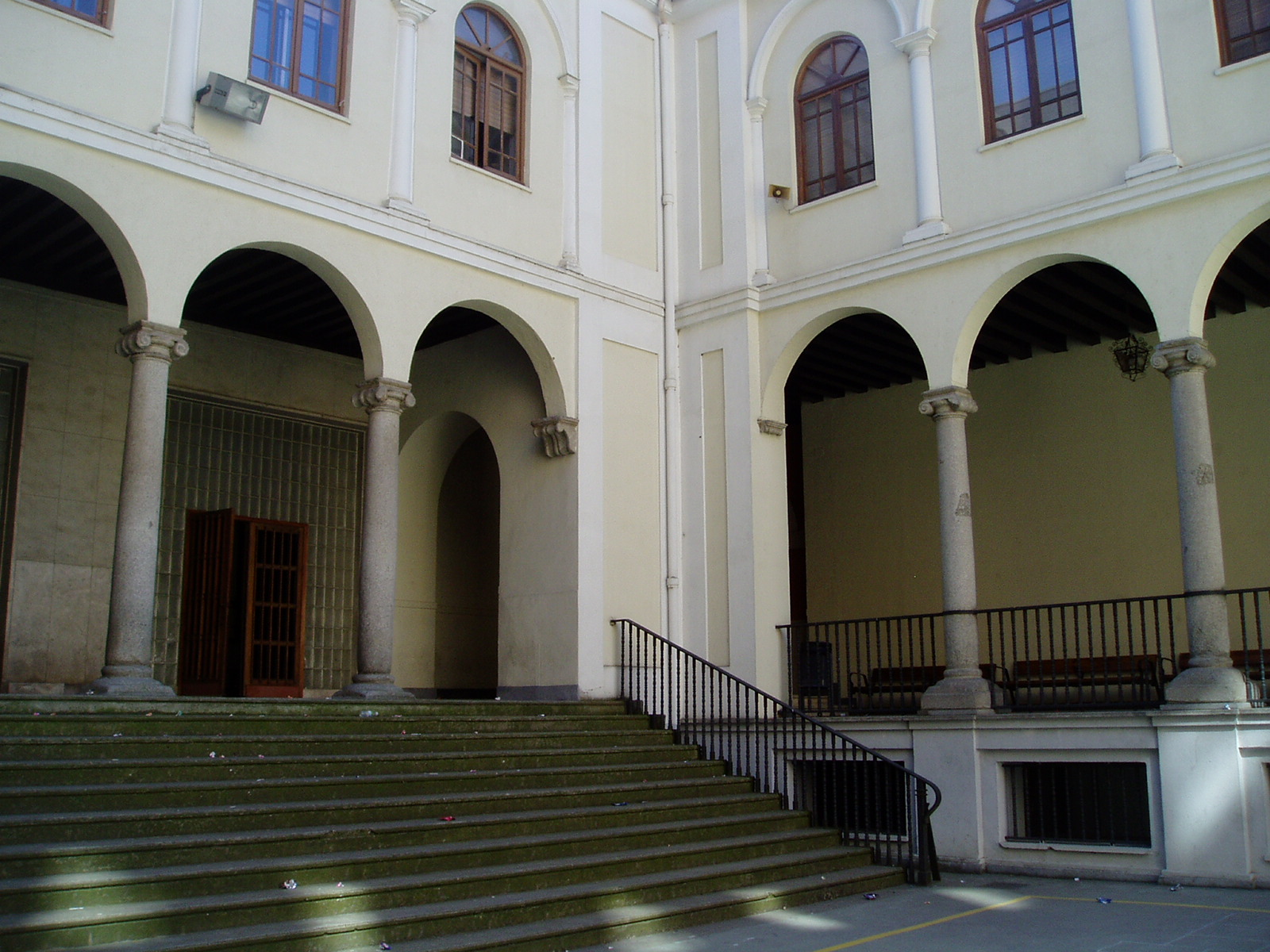 Court of the Escudero-Herrera's palace, in Valladolid.